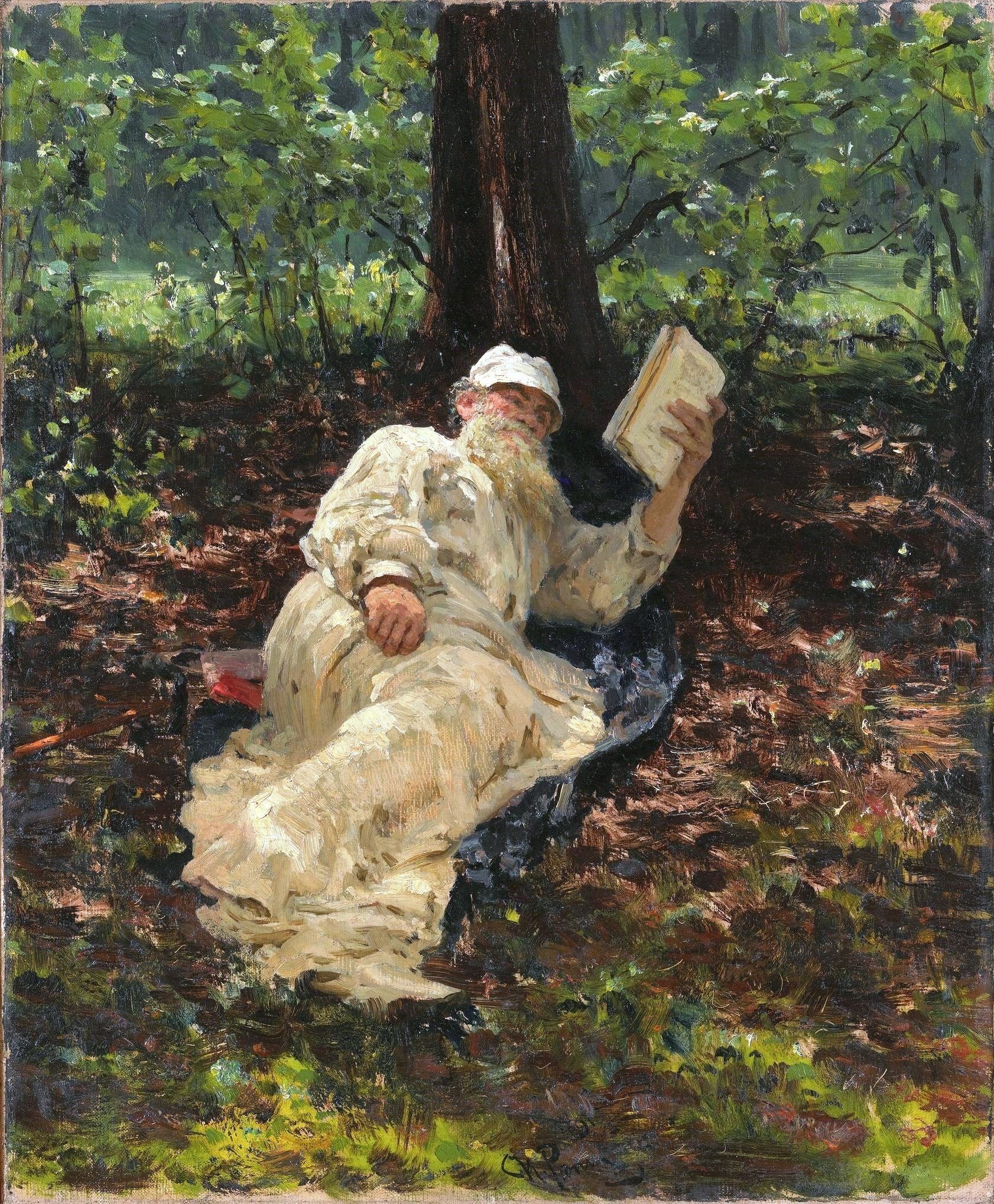 Lev Nikolayevich Tolstoy resting in the forest.